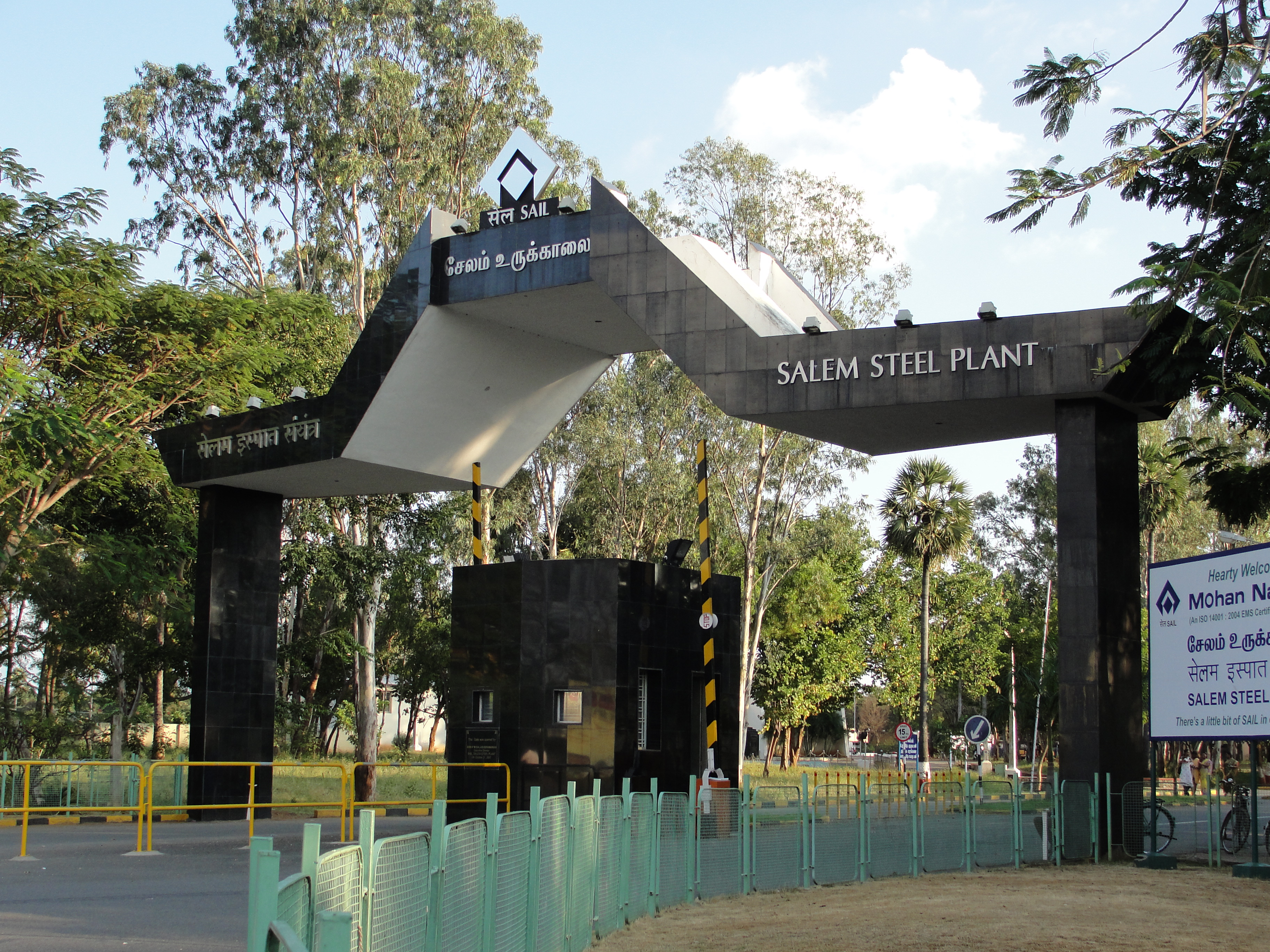 A photo of Salem Steel Plant entrance. Location: Salem, Salem District, Tamil Nadu, India.Unknown சேலம் உருக்காலை.